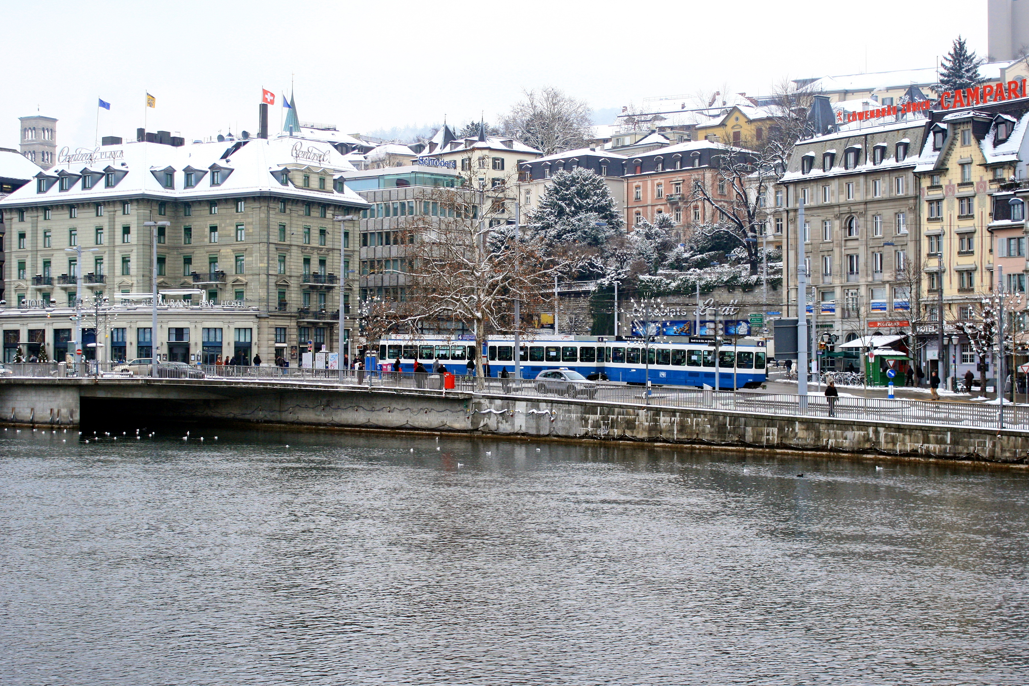 Central as seen from Mühlesteg